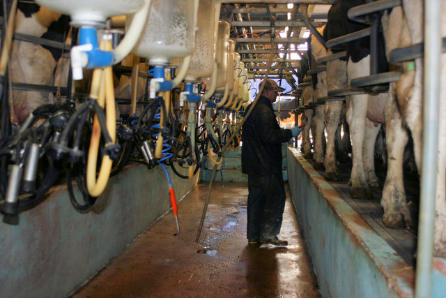 Sampford Farm Dairy.